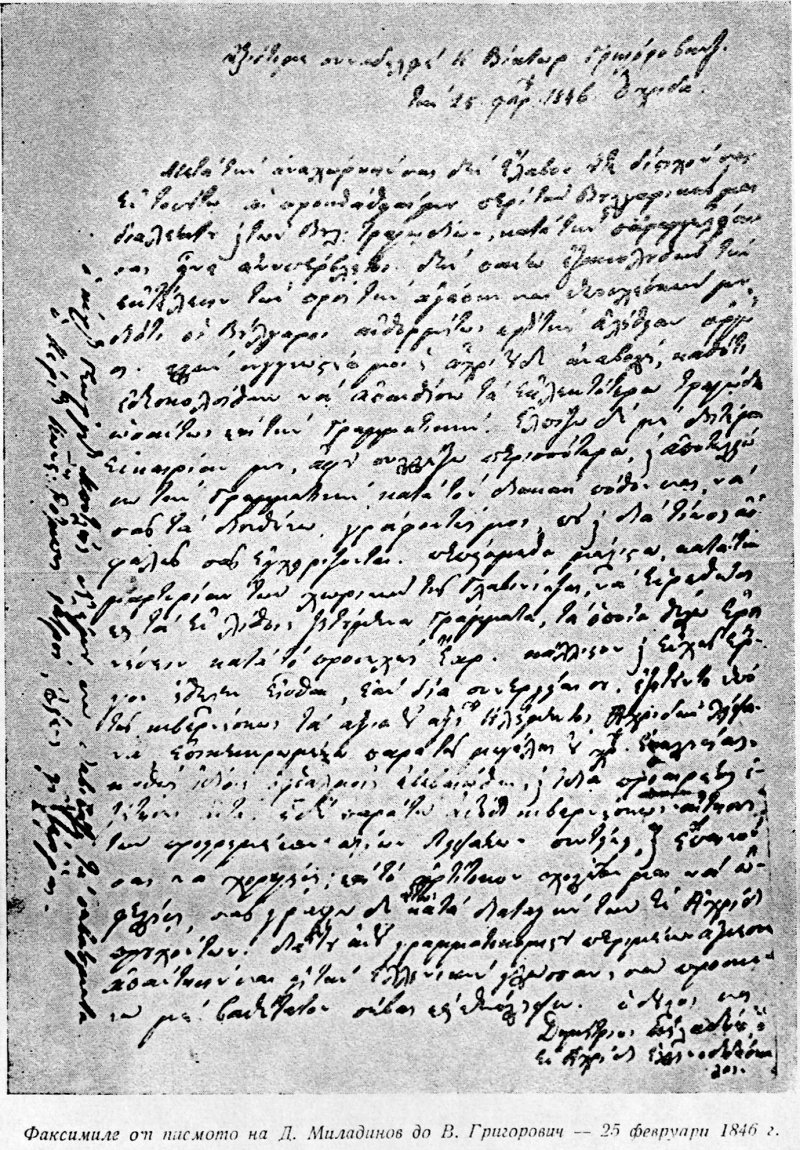 A letter from Dimitar Miladinov from Ohrid to Victor Grigorovich in Vienna about the search for Bulgarian folk songs in Macedonia.